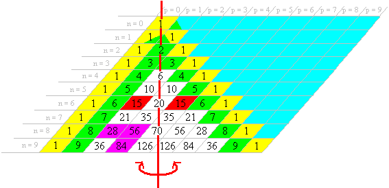 Made by Romero Schmidtke